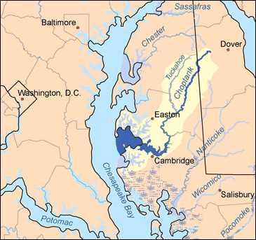 This is a map of the rivers of the Eastern Shore of Maryland with the Choptank River and its watershed highlighted. I made it using USGS data.